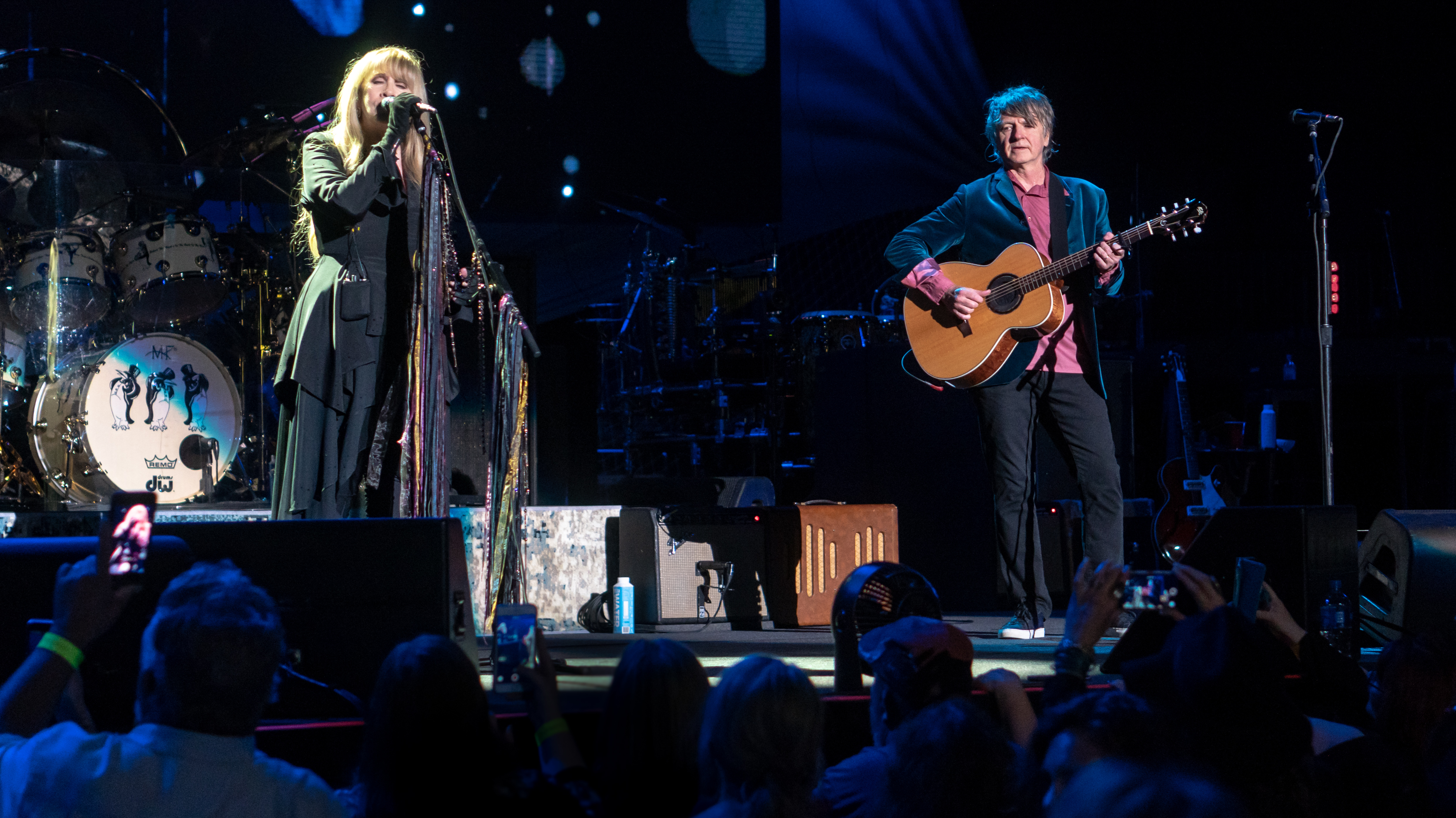 Fleetwood Mac - BOK Center Tulsa - Wednesday 3rd October 2018